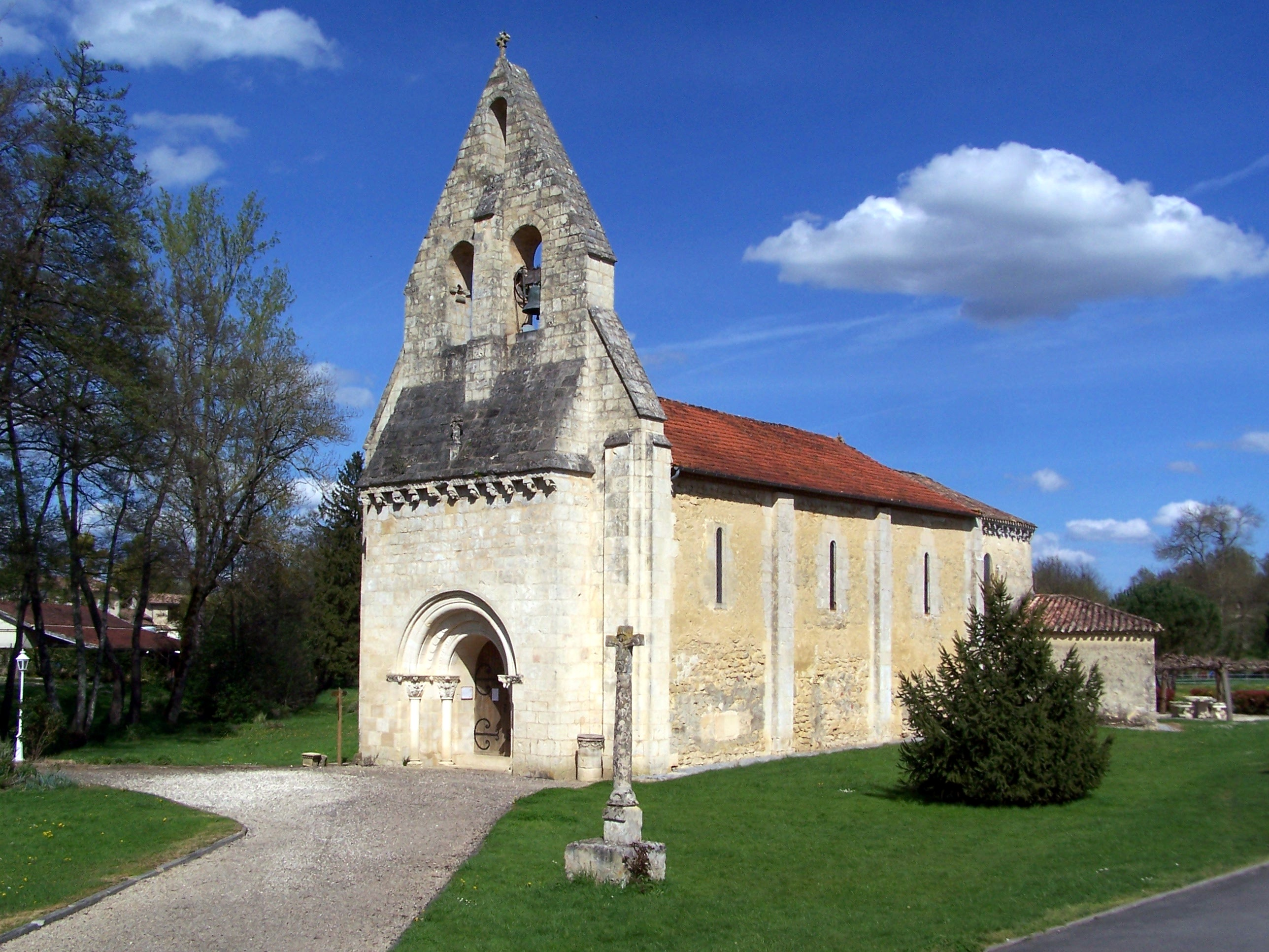 Saint Martin church of Arbis (Gironde, France)